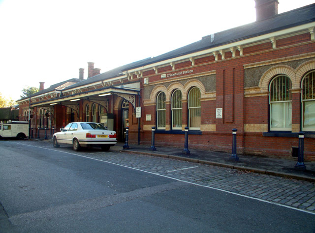 Chislehurst Station BR7